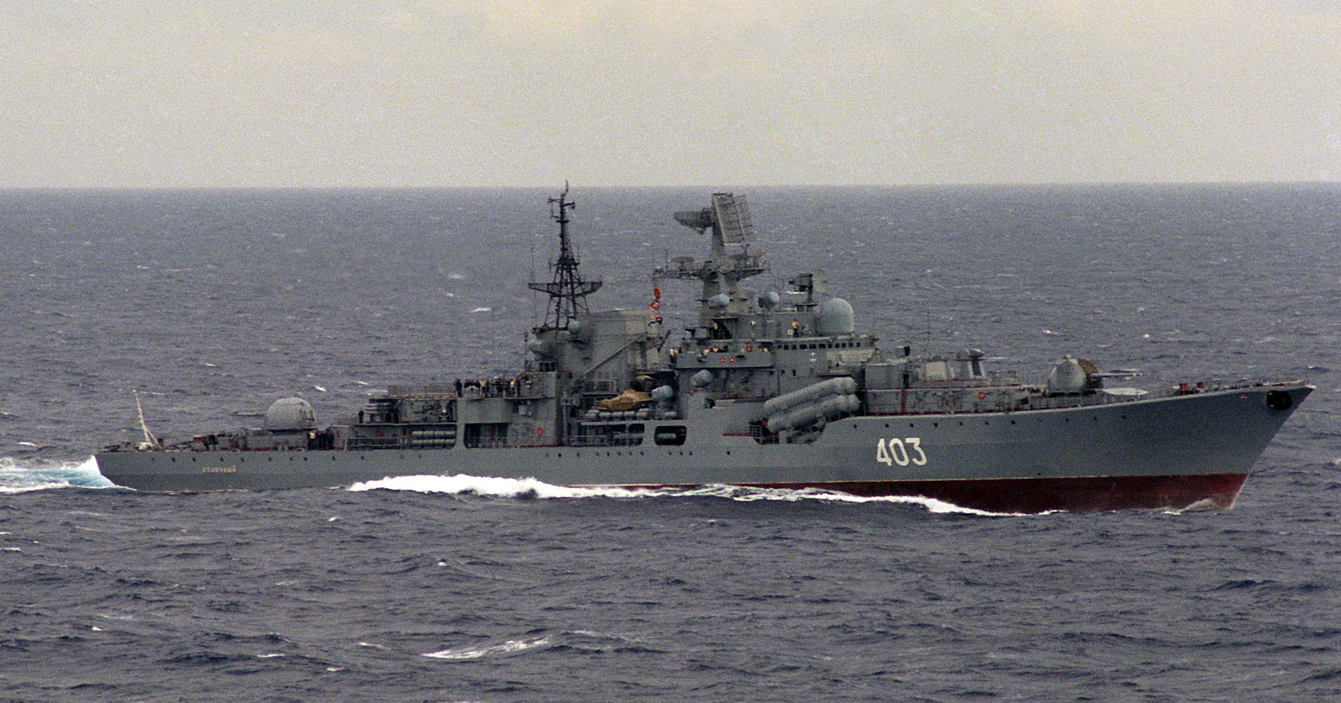 A starboard view of a Soviet Sovremennyy class guided missile destroyer observing US Navy ships participating in an underway replenishment operations.